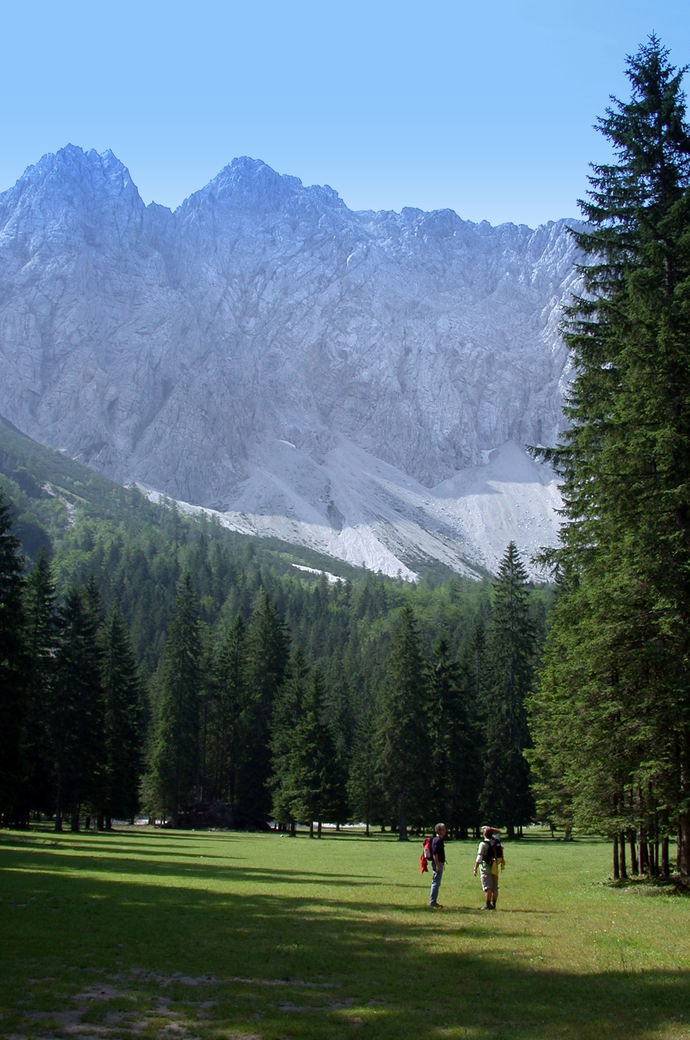 Märchenwiese (fairy tale meadow) in the Bodental valley near Ferlach / Carinthia / Austria / EU.